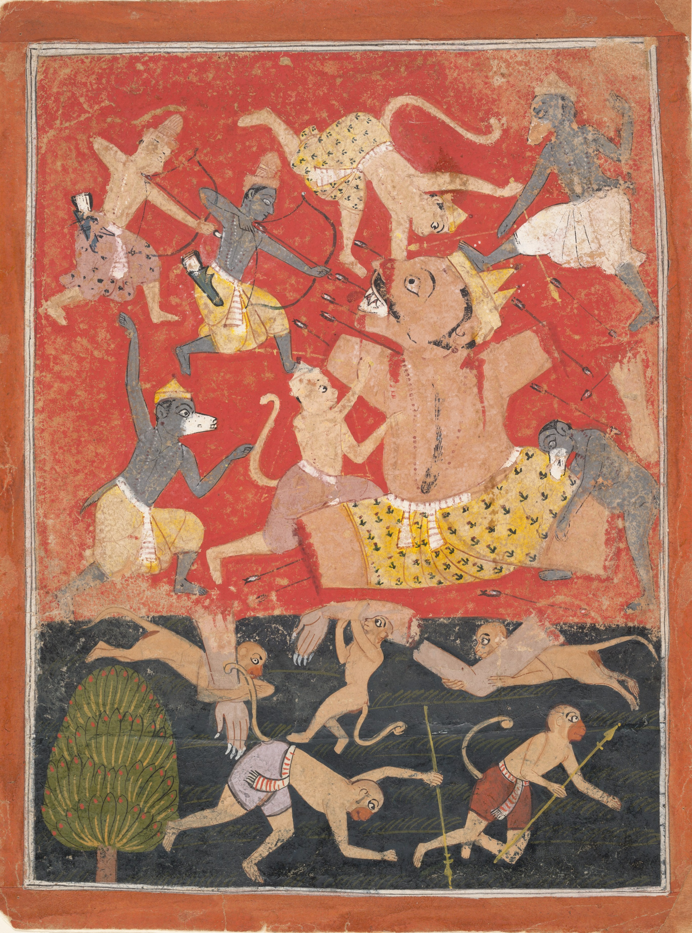 According to the Ramayana, Kumbhakarna, the terrifying giant and brother of Ravana, was causing great damage to the monkey army when Rama and Lakshmana entered the battle. Using magical arrows of great power, Rama severed Kumbhakarna's limbs and filled his mouth with pointed steel shafts. The pathos of the demon's defeat is emphasized by his dismembered body parts being carried away by the bear and monkey warriors. Compared to the Mughal depiction The Awakening of the Demon Kumbhakarna, which shows the giant sleeping, this Malwa portrayal focuses on his violent and bloody demise. The brilliant red and black color fields and the spatial ambiguity are drawn from earlier Hindu painting traditions of Malwa, where the Mughal style had little impact.